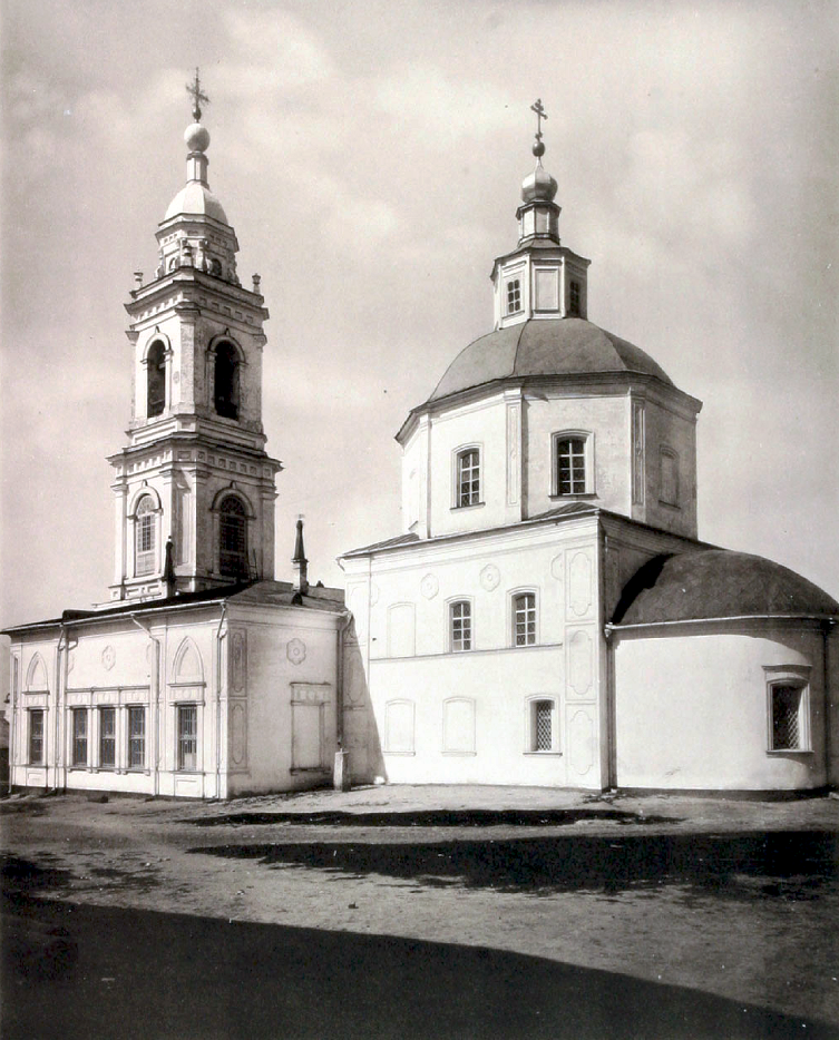 Church of Nine Martyrs, Moscow.